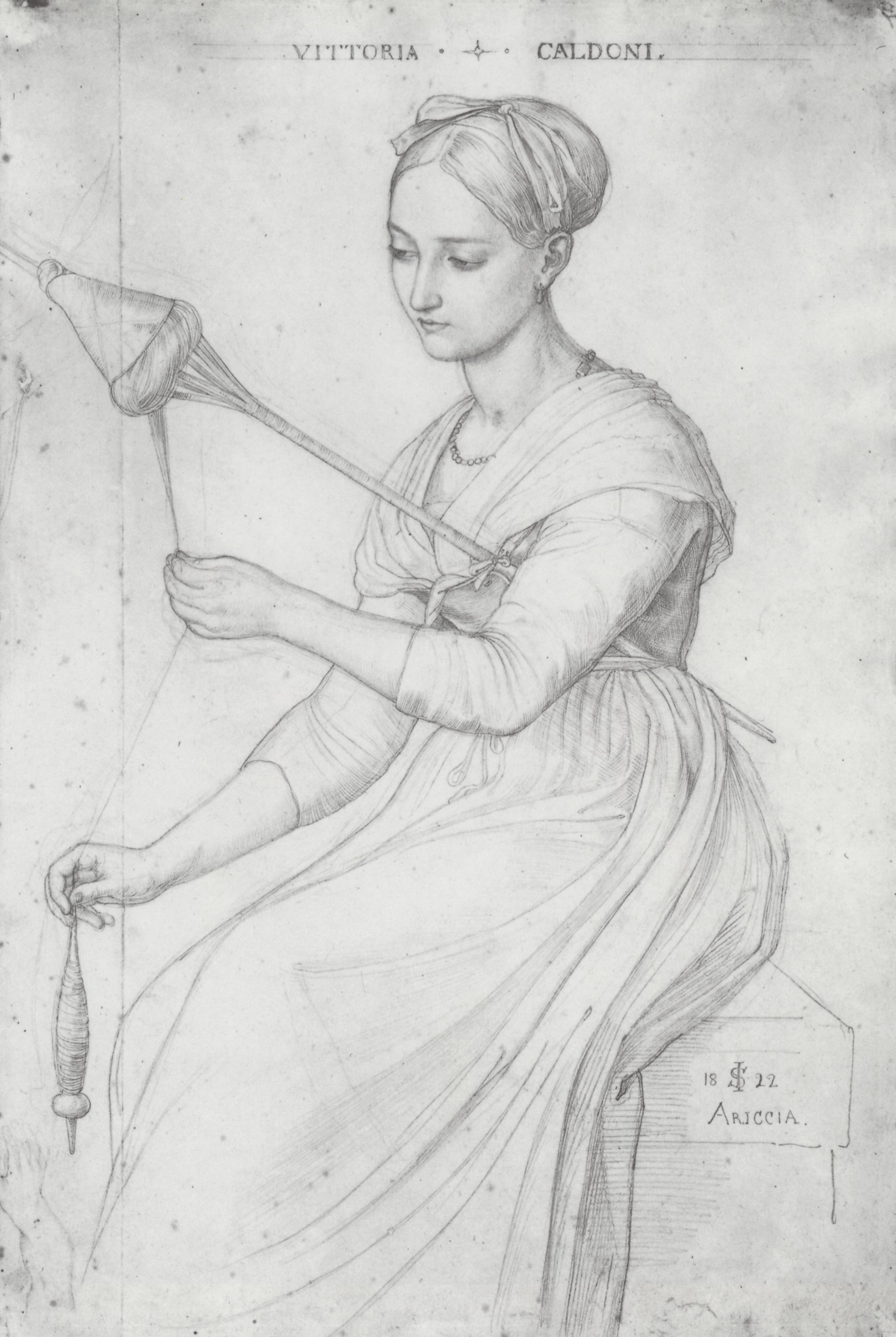 Vittoria Caldoni with a spindle, 42,8 × 28,9 cm, pencil, State Graphical Collection (Munich)